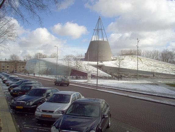 It is a picture of the library of the TU Delft By that time, it was still snowing in that part of The Netherlands. The roof of the building should normally be green, because of the grass growing on the roof.